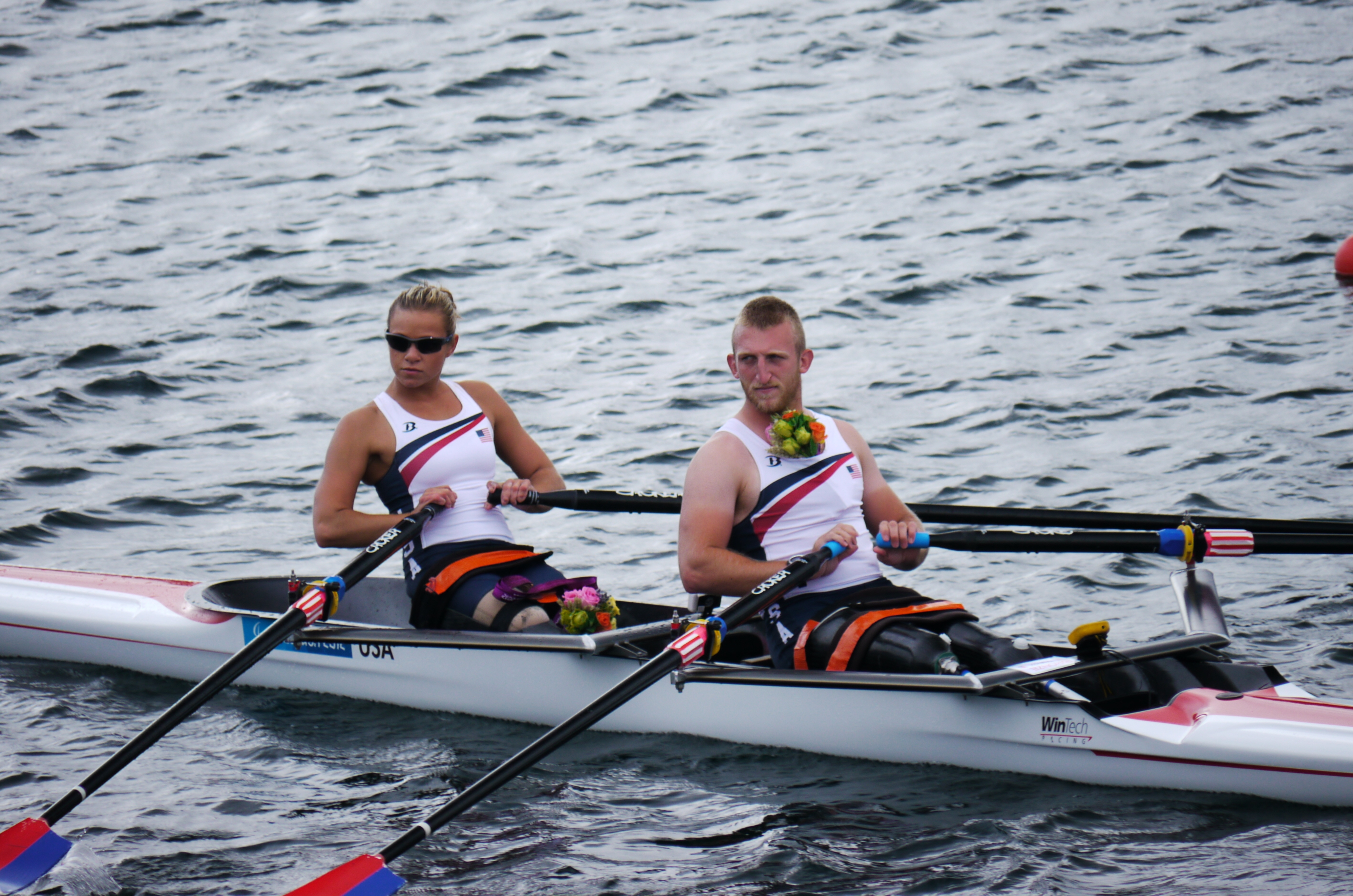 The A final of the TA mixed double sculls at Eton Dorney Lake, summer Paralympics London 2012. Gold: China -Xiaoxian Lou & Tianming Fei Silver: France - Perle Bouge & Stephane Tardieu Bronze: USA - Oksana Masters & Rob Jones The Team GB double of Samantha Scowen and Nicholas Beighton missed out on a medal by 0.21 of a second coming in 4th.